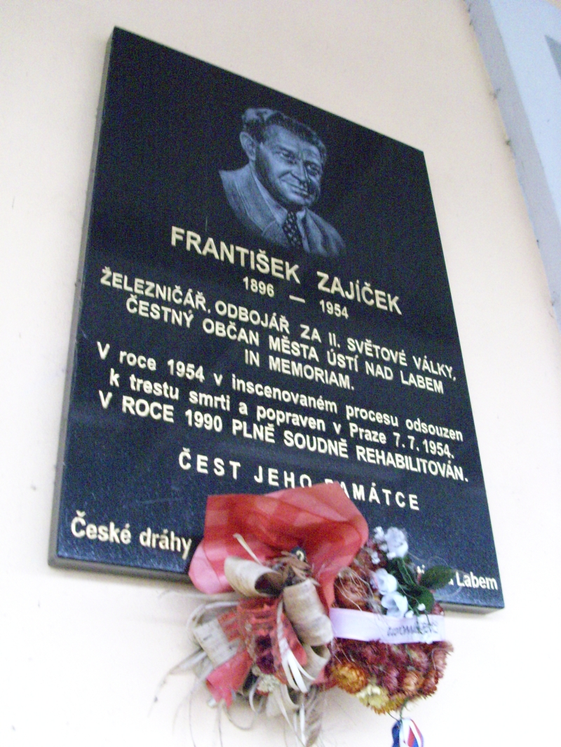 memory desk of Frantisek Zajicek in Usti nad Labem, railway station - west